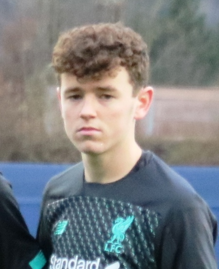 Top row: Thomas Hill before the game against Red Bull Salzburg U19